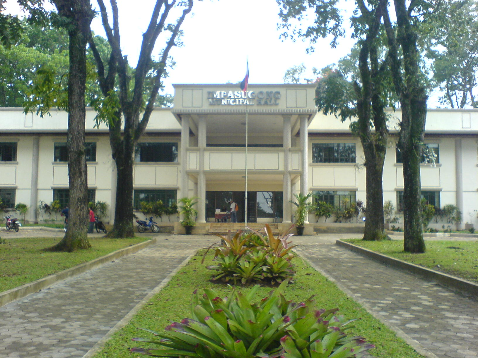 Municipal hall of Impasug-ong, Bukidnon